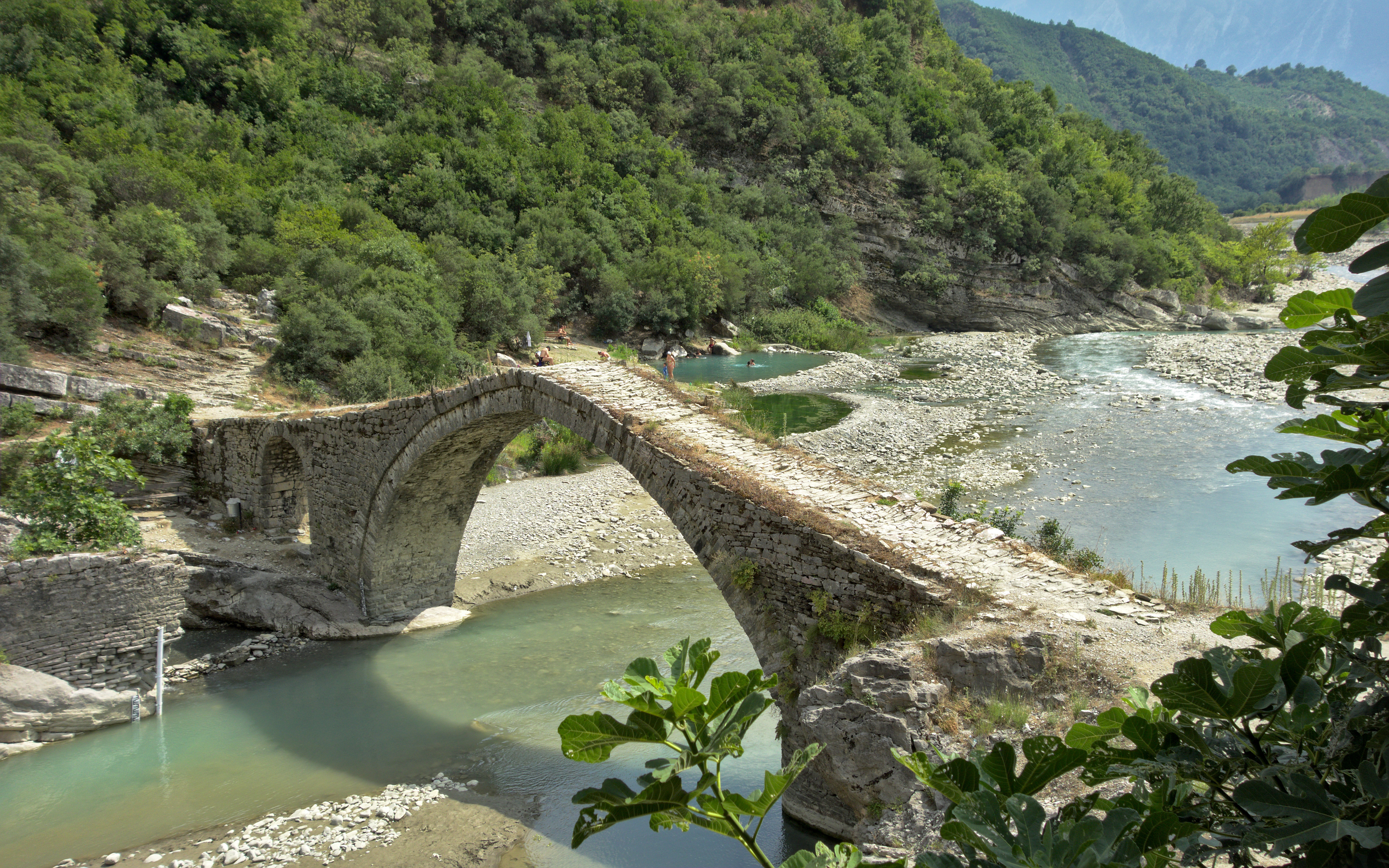 Banjat e Benjës with river Lengariça, the three lowest basins and the ottoman brideg Kadiut (Ura e Kadiut)